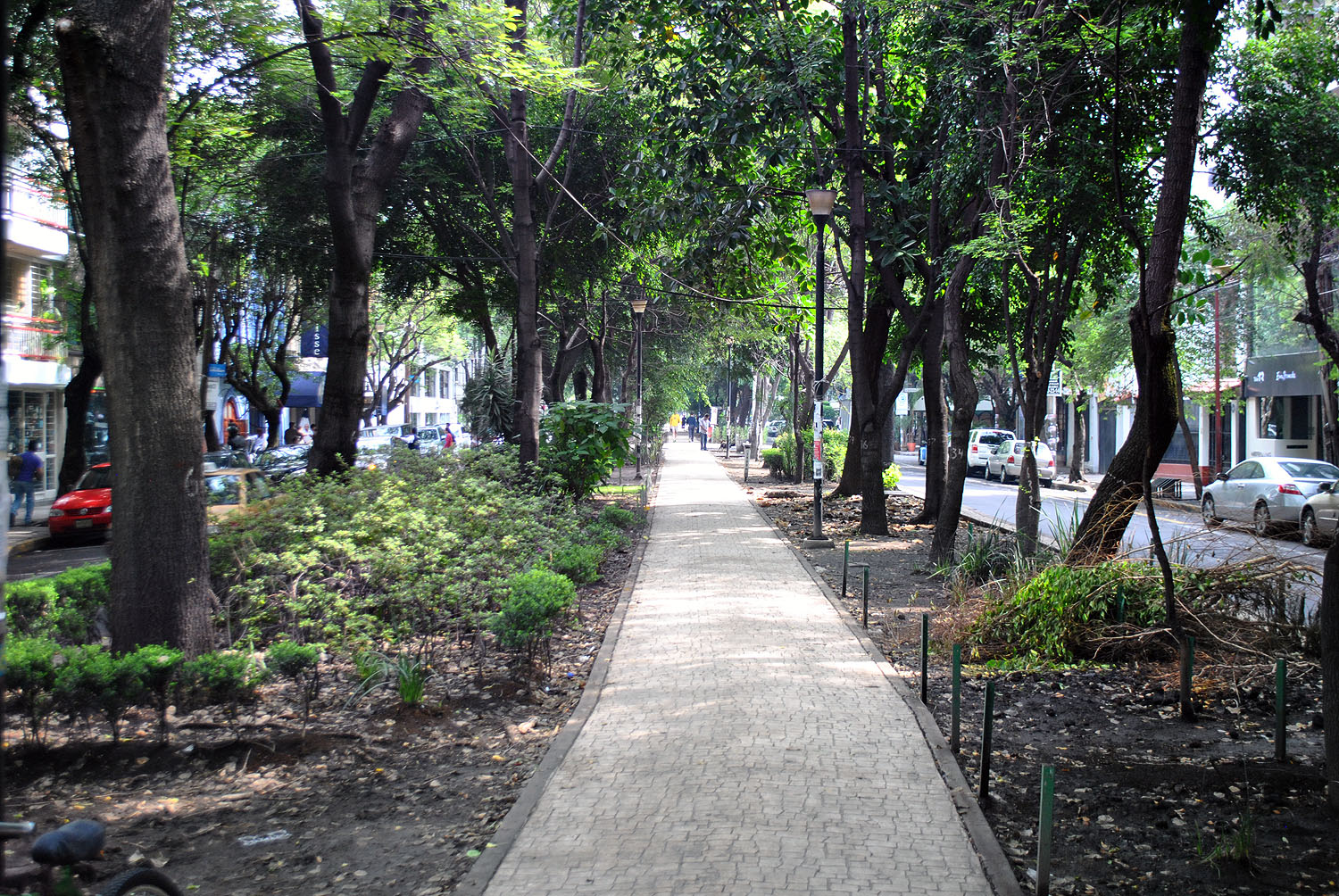 Avenida Amsterdam is located in Colonia Condesa in Cuauhtemoc Mexico City. Its particular elliptical shape comprising at Parque Mexico.